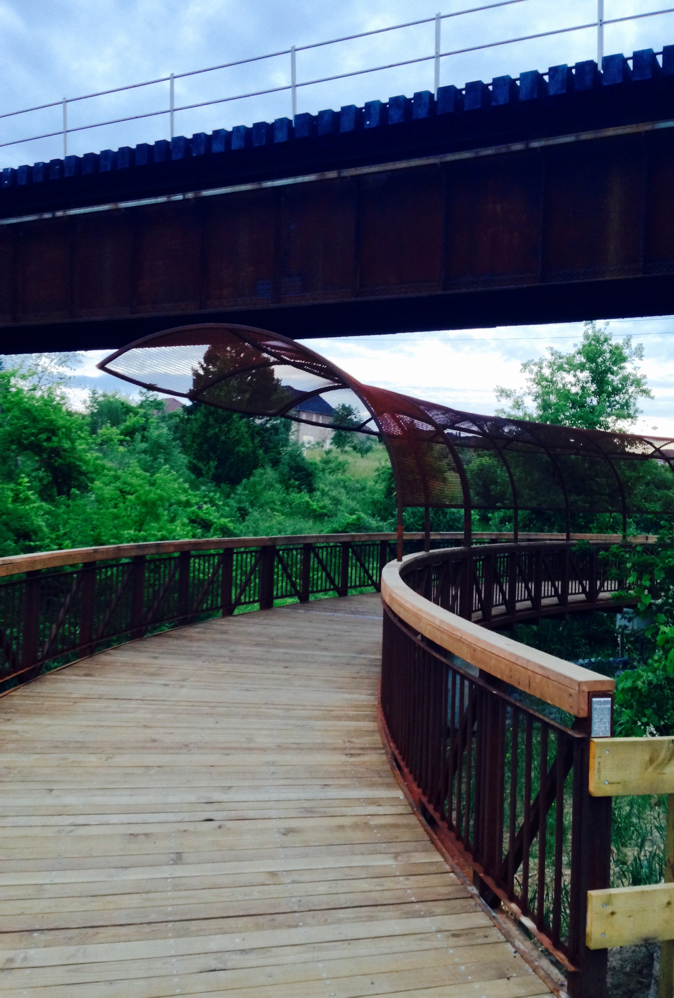 Multi-use recreation trail running along Carruthers Creek forming the western boundary of Audley North